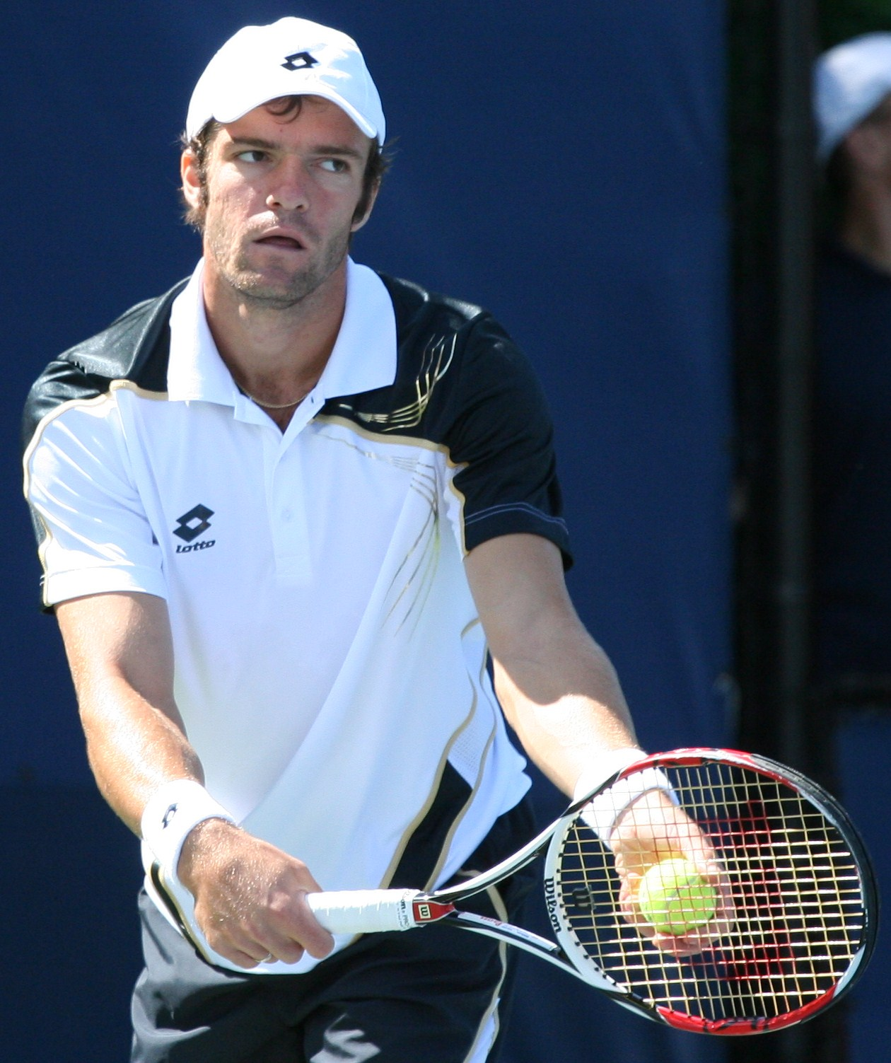 U.S. Open Thursday, Sept. 3